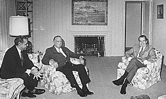 Bebe Rebozo, FBI Director J. Edgar Hoover and President Richard Nixon relax before dinner, Key Biscayne FL, 12/28/71 ARC Identifier 194750 / Local Identifier NLRN-WHPO-8146-03A Richard Nixon Library, Yorba Linda, CA Item from Collection RN-WHPO: White House Photo Office Collection (Nixon Administration), 01/20/1969 - 08/09/1974